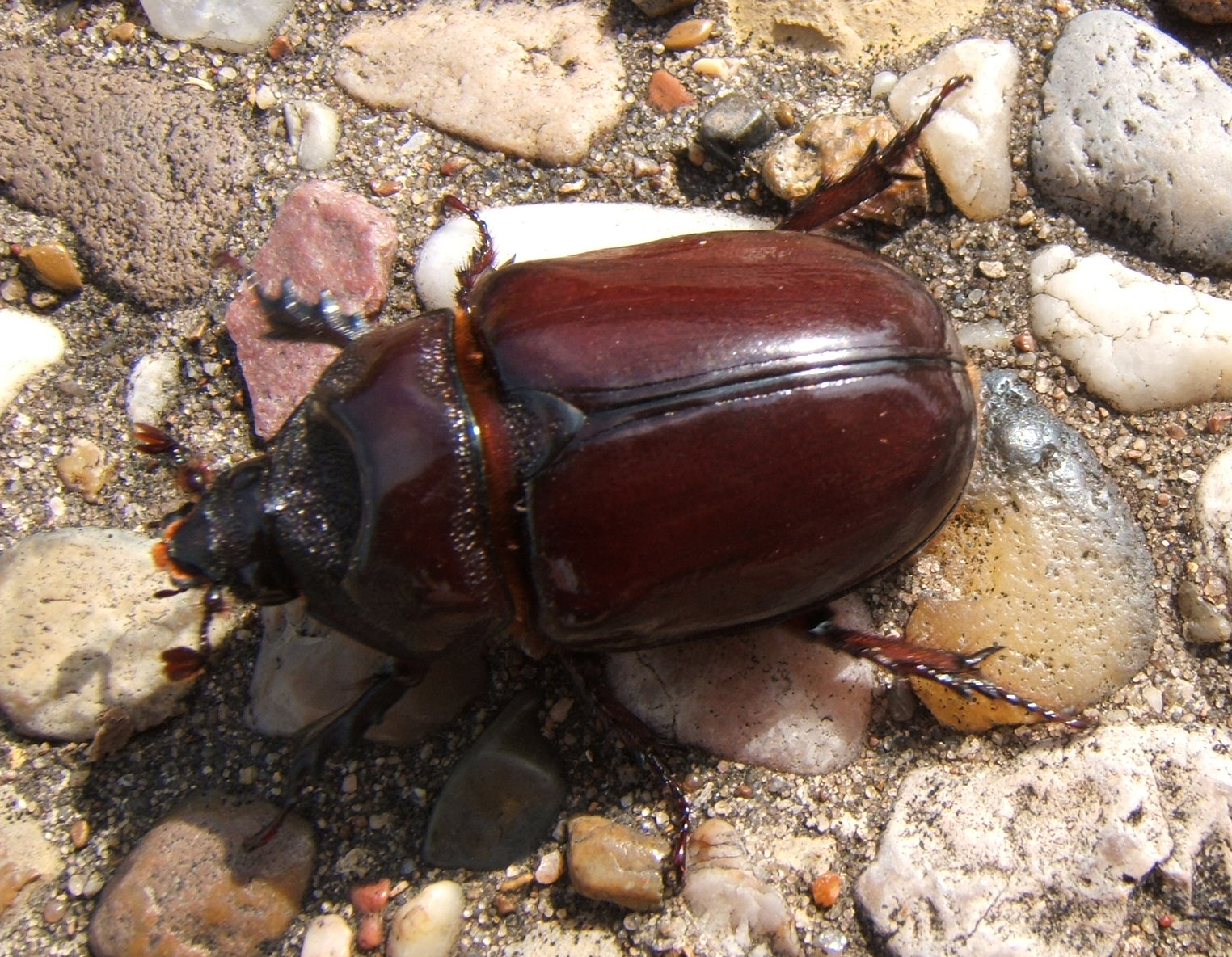 Strategus aloeus adult female from College Station, Texas.